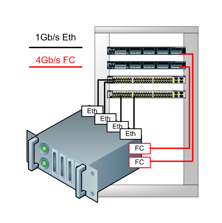 Ethernet and Fibre Channel server connections without I/O consolidation